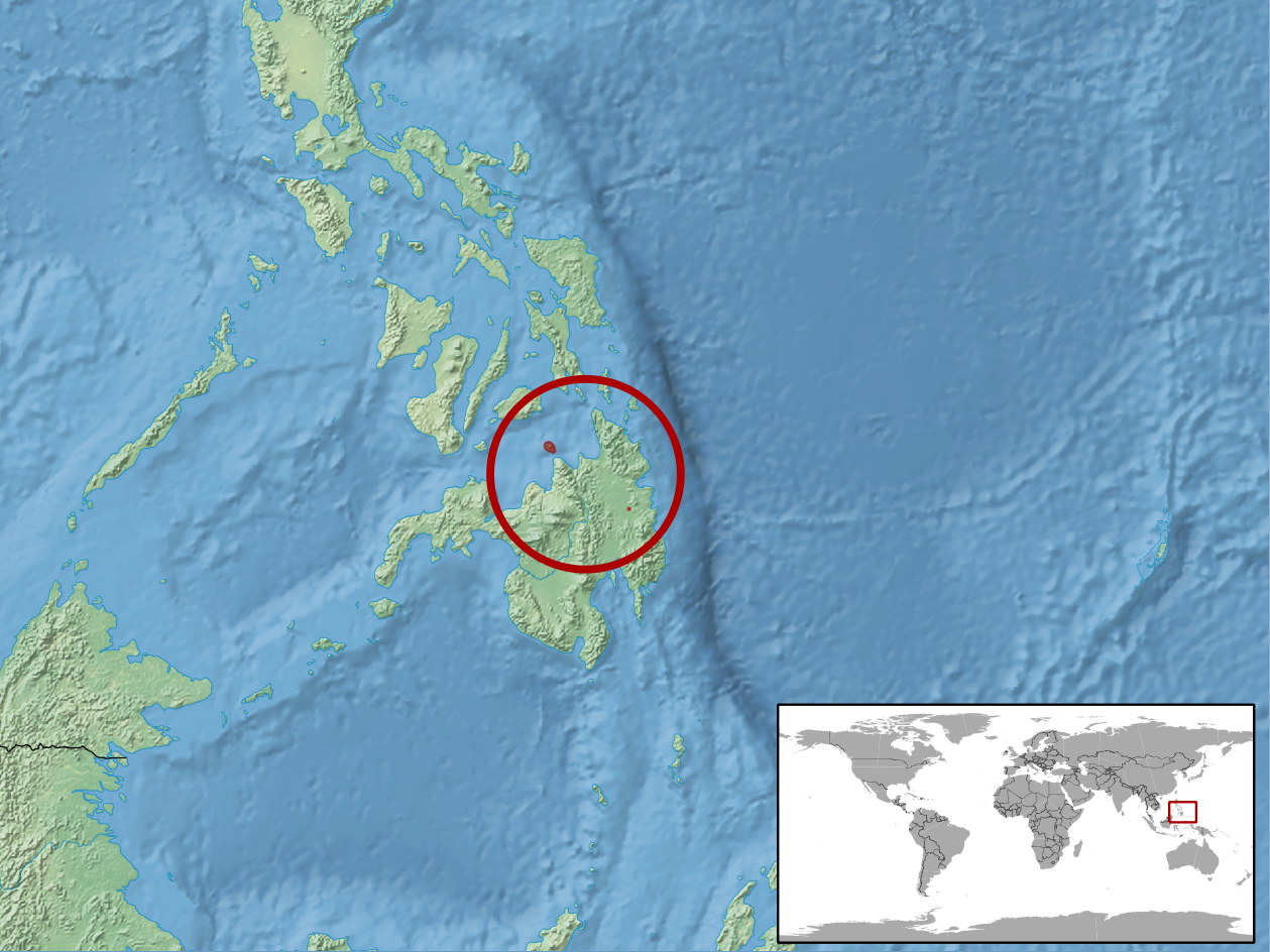 geographic distribution of Lipinia semperi